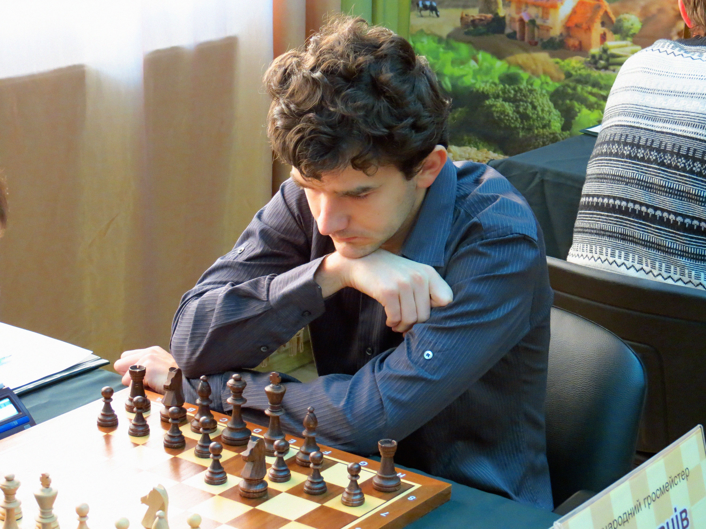 Martyn Kravtsiv Ukraine championship 2015 (2nd place)